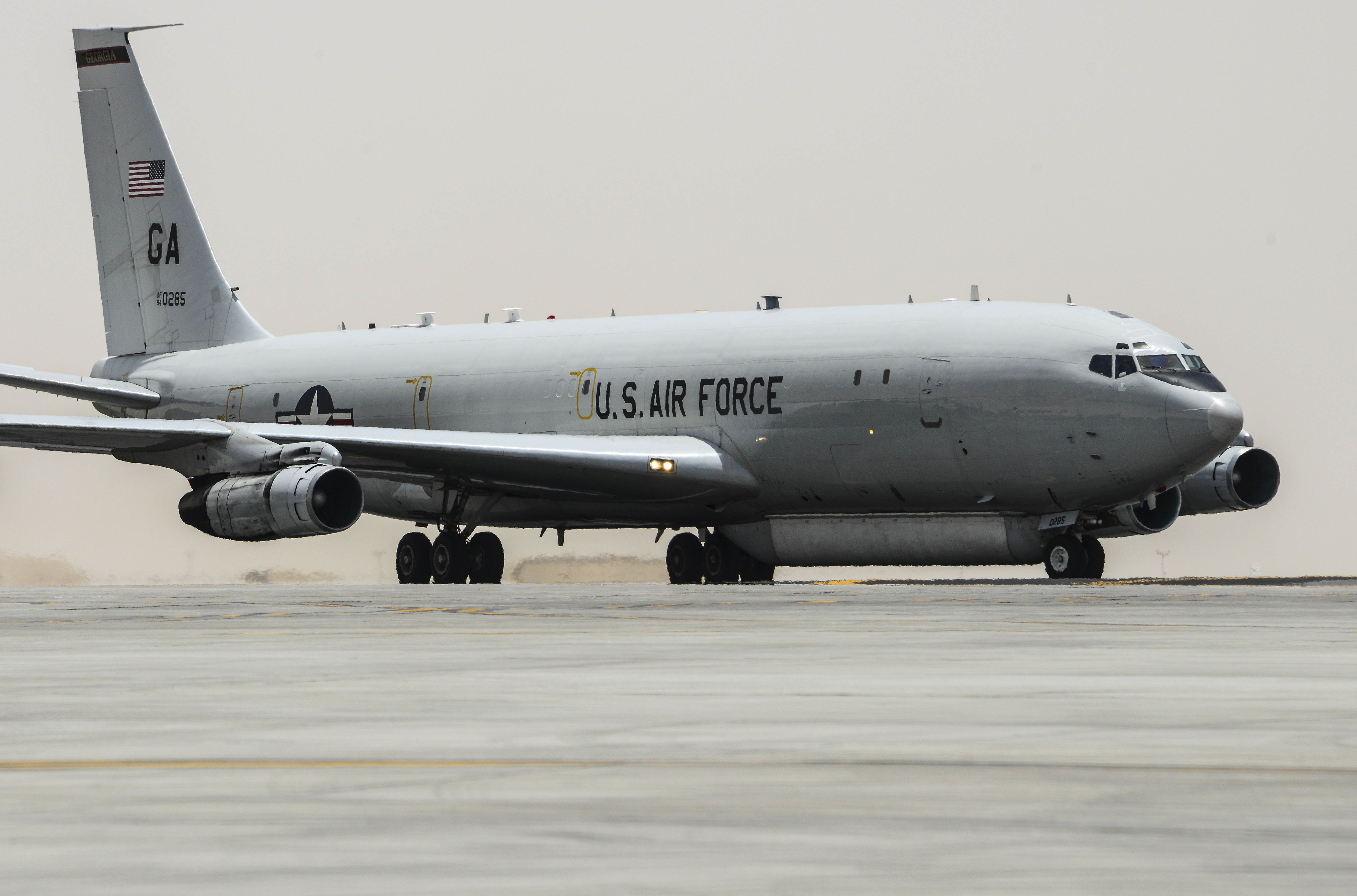 An E-8C Joint Surveillance Target Attack Radar Systems taxis down the runway after completing a mission June 7, 2016, at Al Udeid Air Base, Qatar. The JSTARS team flies 10 to 11 hours per mission to provide ground commanders with intelligence, surveillance and reconnaissance air power to boost force protection, defensive operations, over-watch and combat search and rescue missions throughout the area of responsibility. (U.S. Air Force photo/Senior Airman Janelle Patiño/Released) Unit: 379th Air Expeditionary Wing